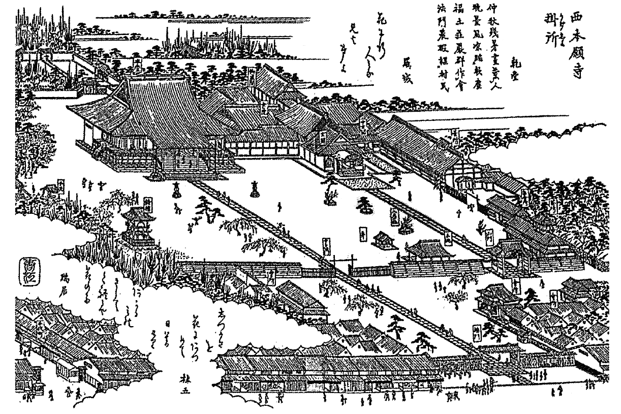 Woodcut print birdview depicting the Hongan-ji Nagoya Betsuin (Nishi-Honganji), from the Owari Meisho Zue.